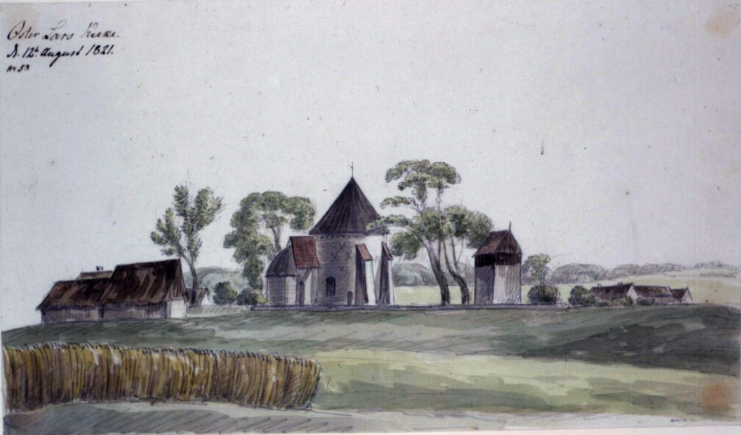 Øster Lars Kirke. d. 12. Aug. 1821 No. 58